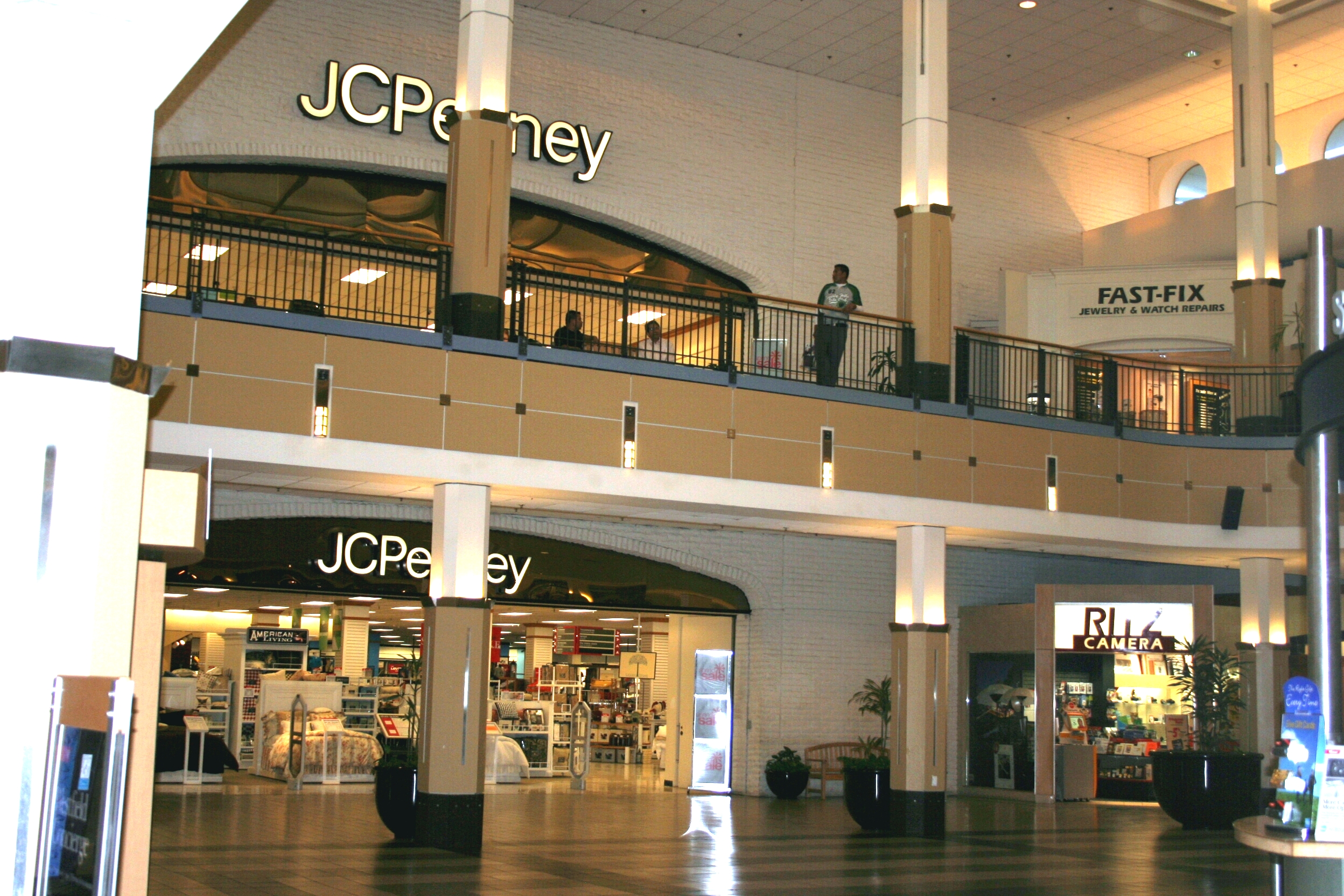 The J. C. Penney courtyard at the Westfield Plaza Camino Real shopping mall in Carlsbad, California. J. C. Penney was one of the two original department stores (along with the May Company) that debuted with the mall's grand opening in 1969. The J. C. Penney building was designed by Krumm & Sorensen using Spanish motifs. The courtyard (along with the rest of the mall's interior) was renovated in the Fall of 1989 with new floor tiles, escalator wells, and glass-enclosed elevator.The photograph was taken with a Canon EOS 350D digital camera and edited (color balance, brightness, contrast, saturation) using ArcSoft PhotoStudio 5.5